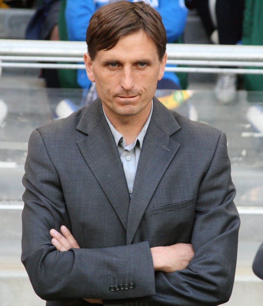 Polish football player and coach Marcin Brosz